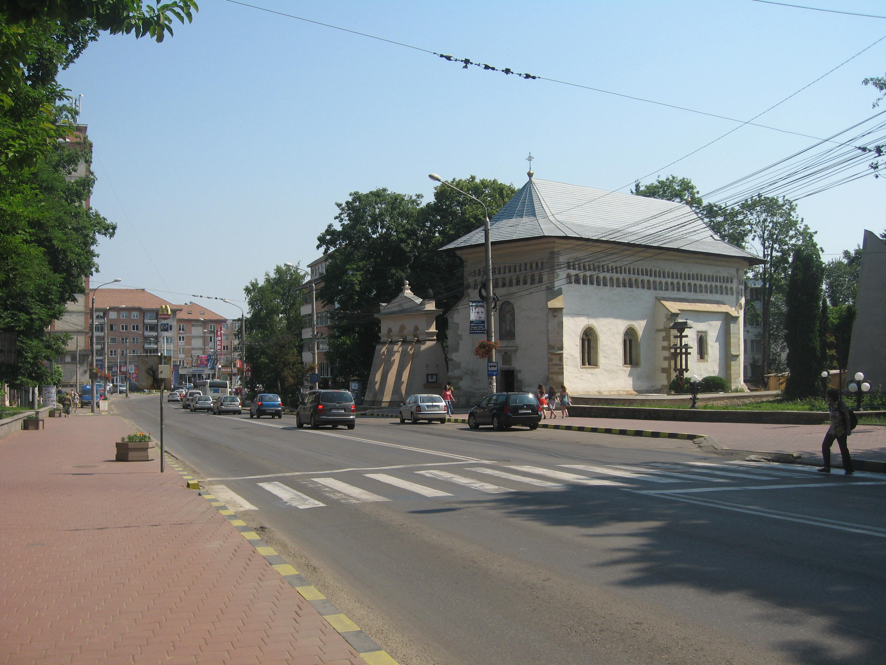 Resurrection Church in Suceava and Ana Ipătescu Avenue.